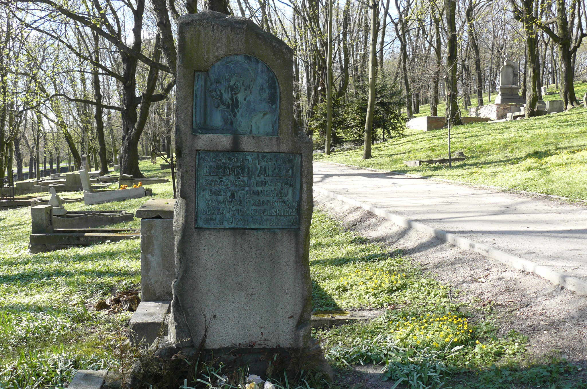 Bernard Milski Tomb - Poznan.